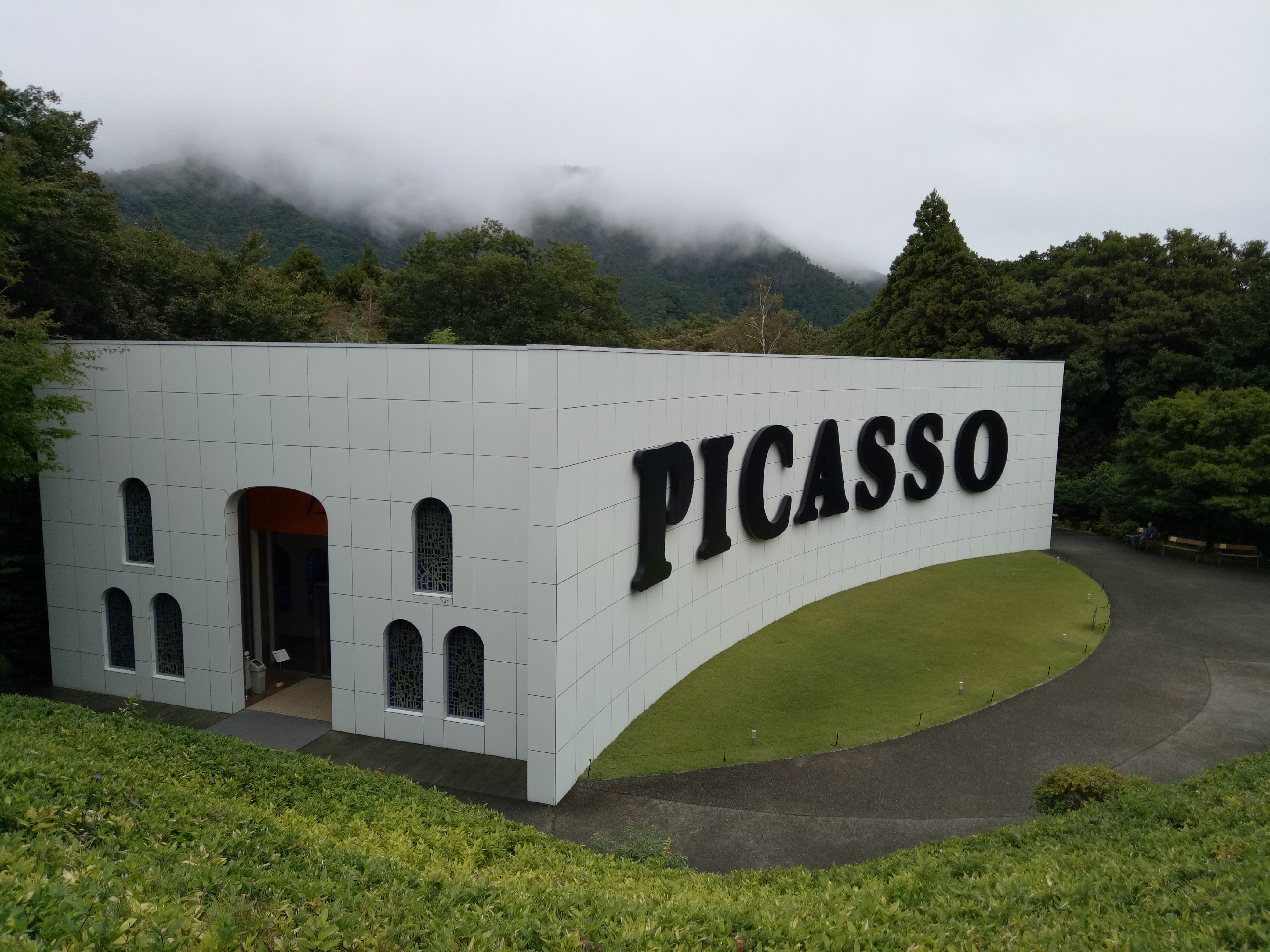 Hakone Open-Air Museum Picasso